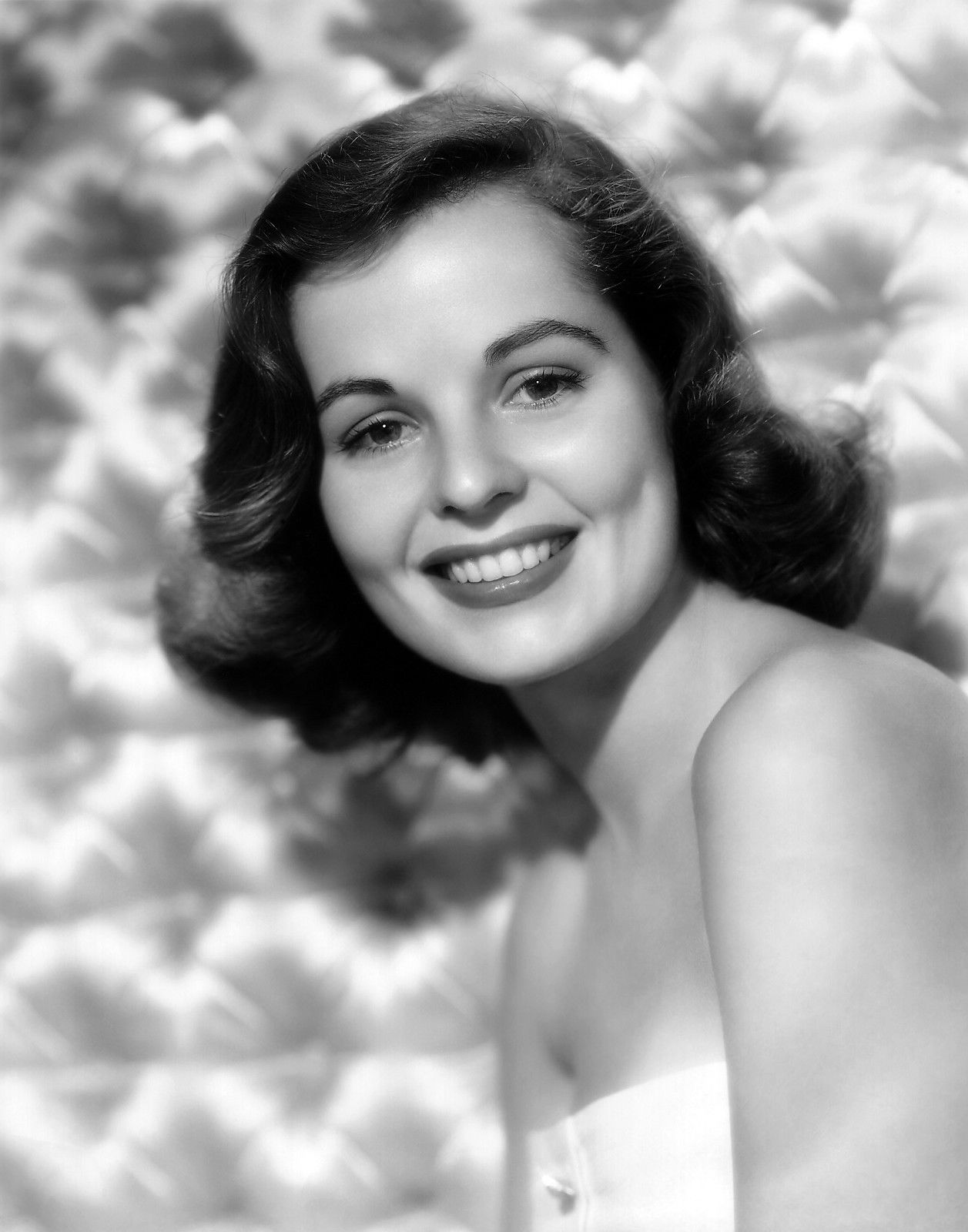 Photo of actress Mary Murphy. Note unwatermarked copy of photo has been uploaded. There are no copyright marks on the photo which can be seen at links above and on first upload here.